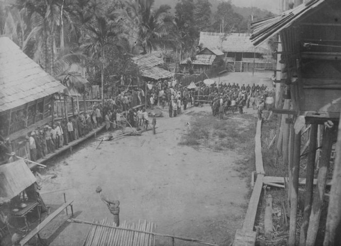 The slaughtering of kerbaus in the Dayak village Tumbang Anoi during the great conciliation festivities by the civil servants A.C. de Heer and J.P.J. Barth, Central-Borneo.